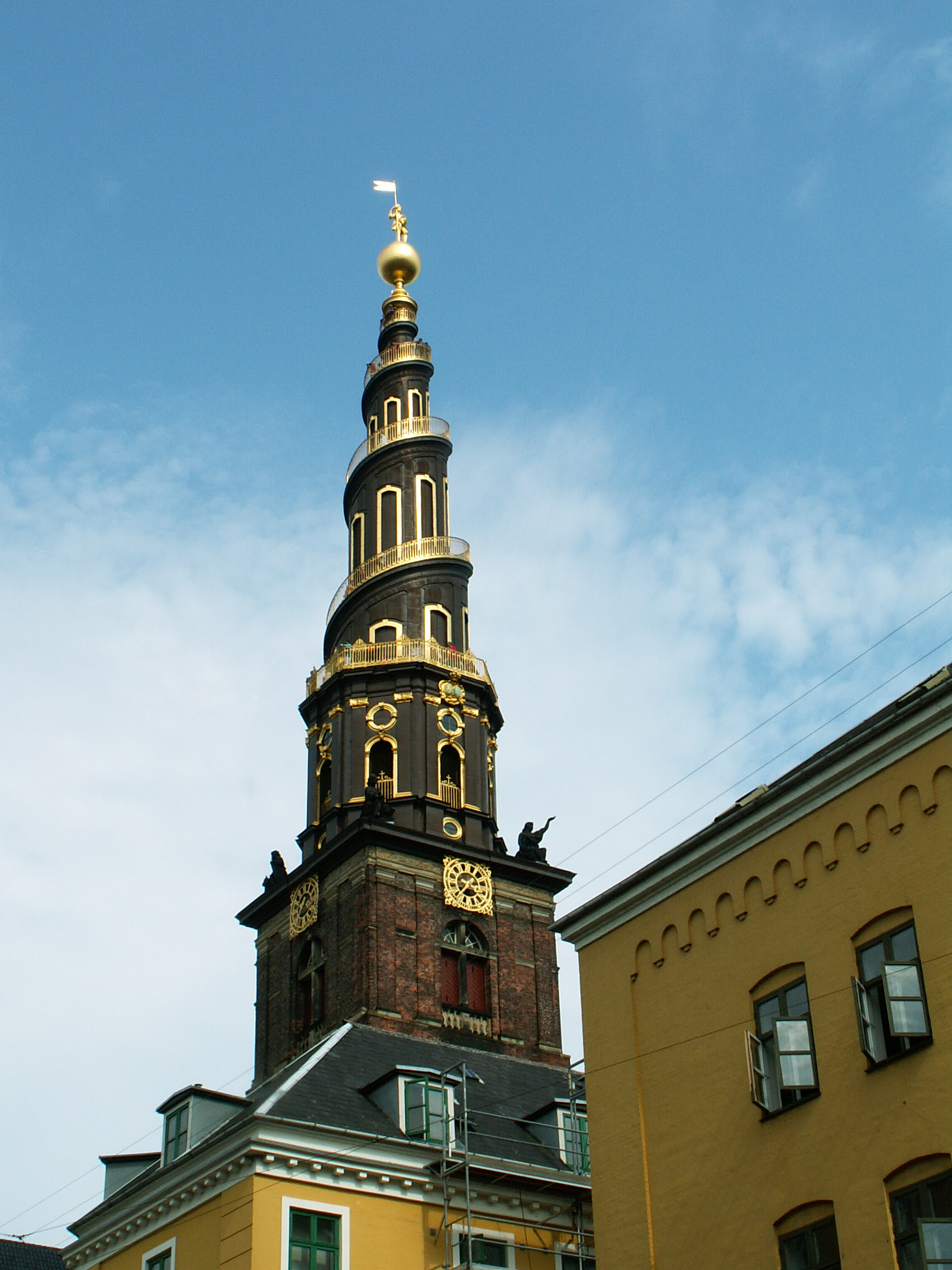 København Vor Frelsers Kirke (Church of Our Saviour)